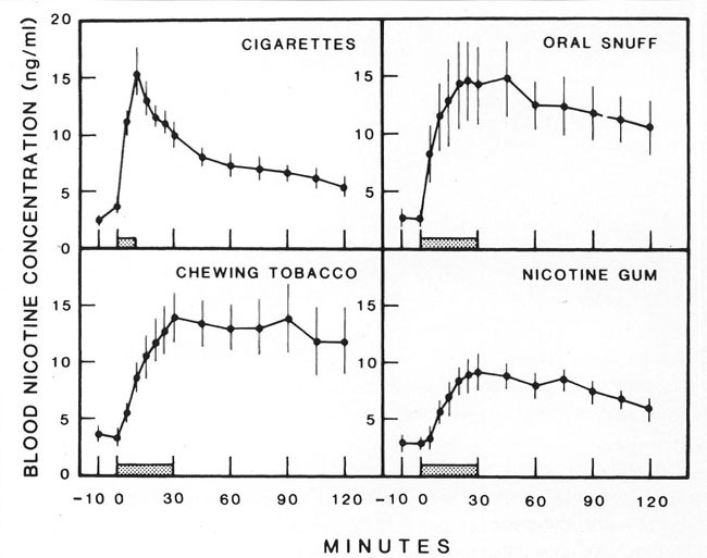 Graph showing the differences in blood concentration of nicotine over time between different forms of tobacco intake.